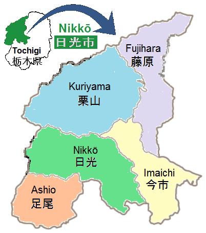 Japan (Tochigi prefecture), Nikkō five historical areas: Ashio, Nikkō, Imaichi, Kuriyama and Fujihara.